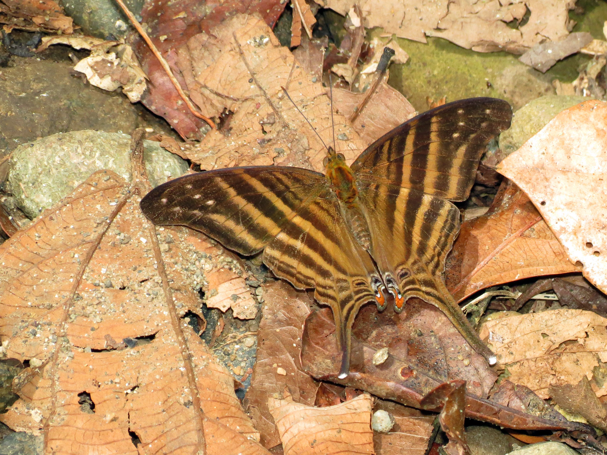 Marpesia chiron. On Pipeline Road, Soberania National Park, Panama. 22 January 2012.